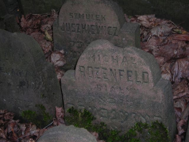 המצבה של מיכאל רוזנפלד